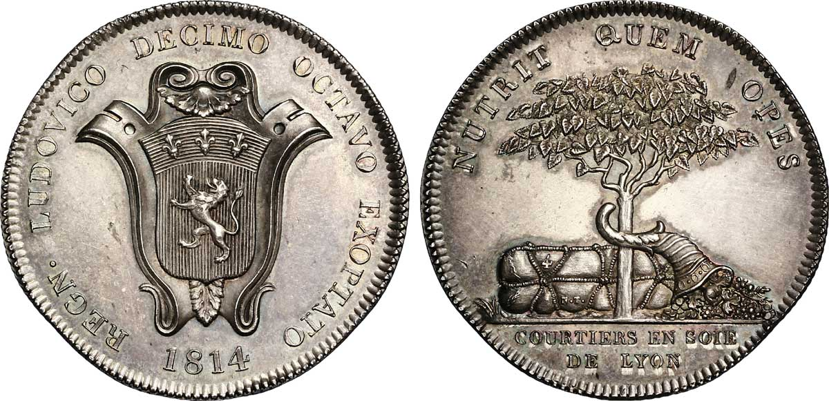 Jeton de corporation des courtiers pour la soie de Lyon; 1814